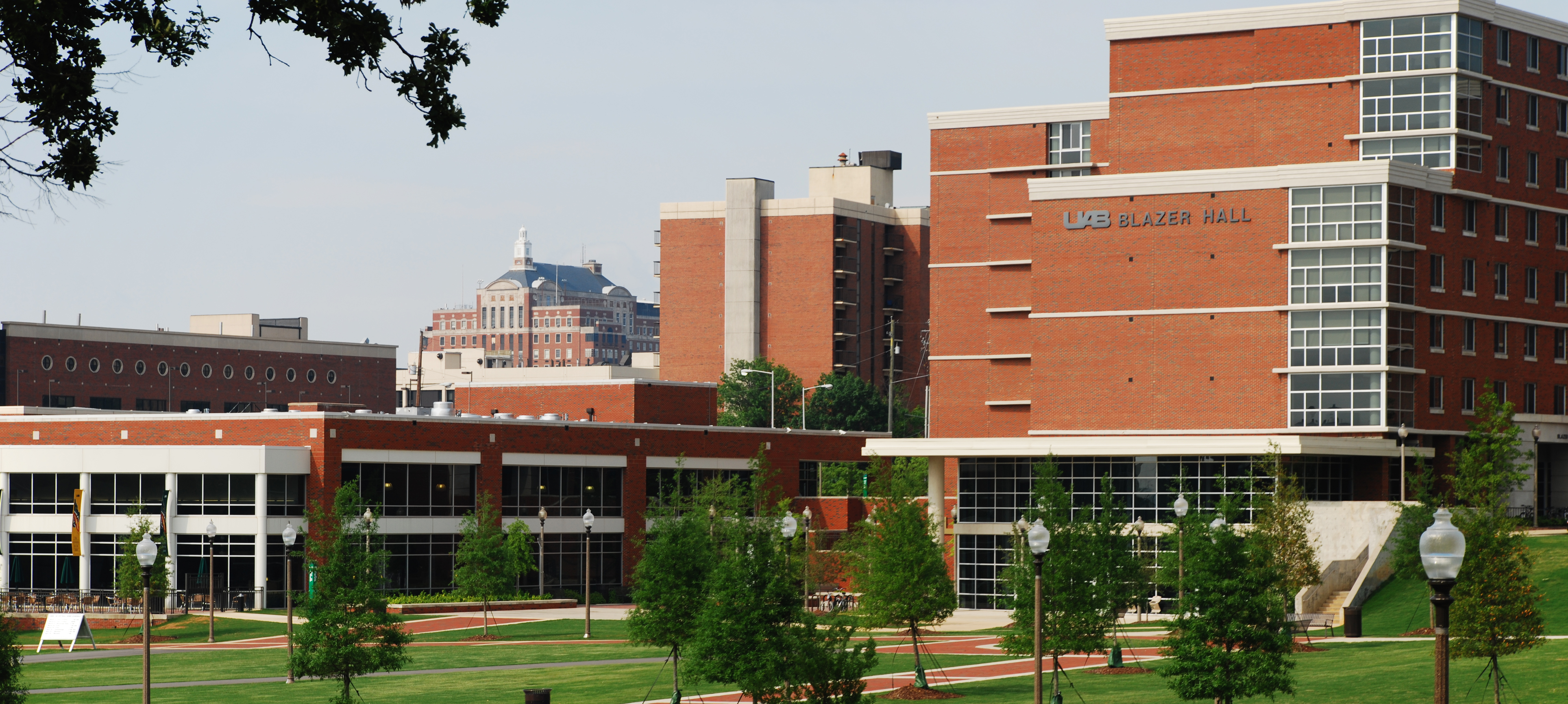 Blazer Hall at the University of Alabama at Birmingham (UAB).